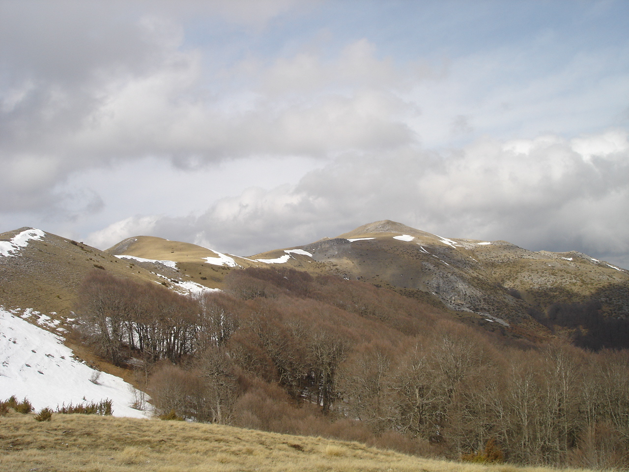 Ilinska Mountain with the peak Liska, Macedonia